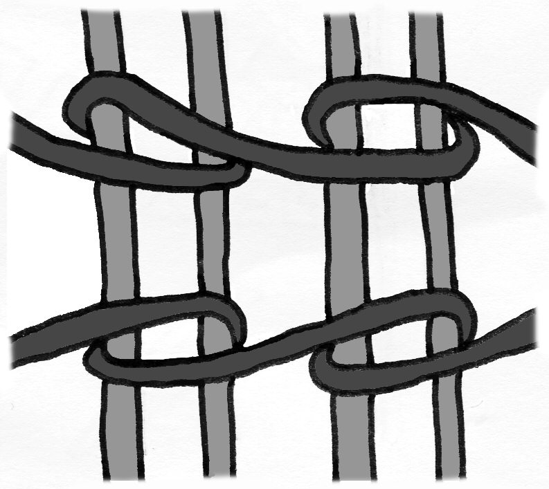 Diagram of Soumak weave